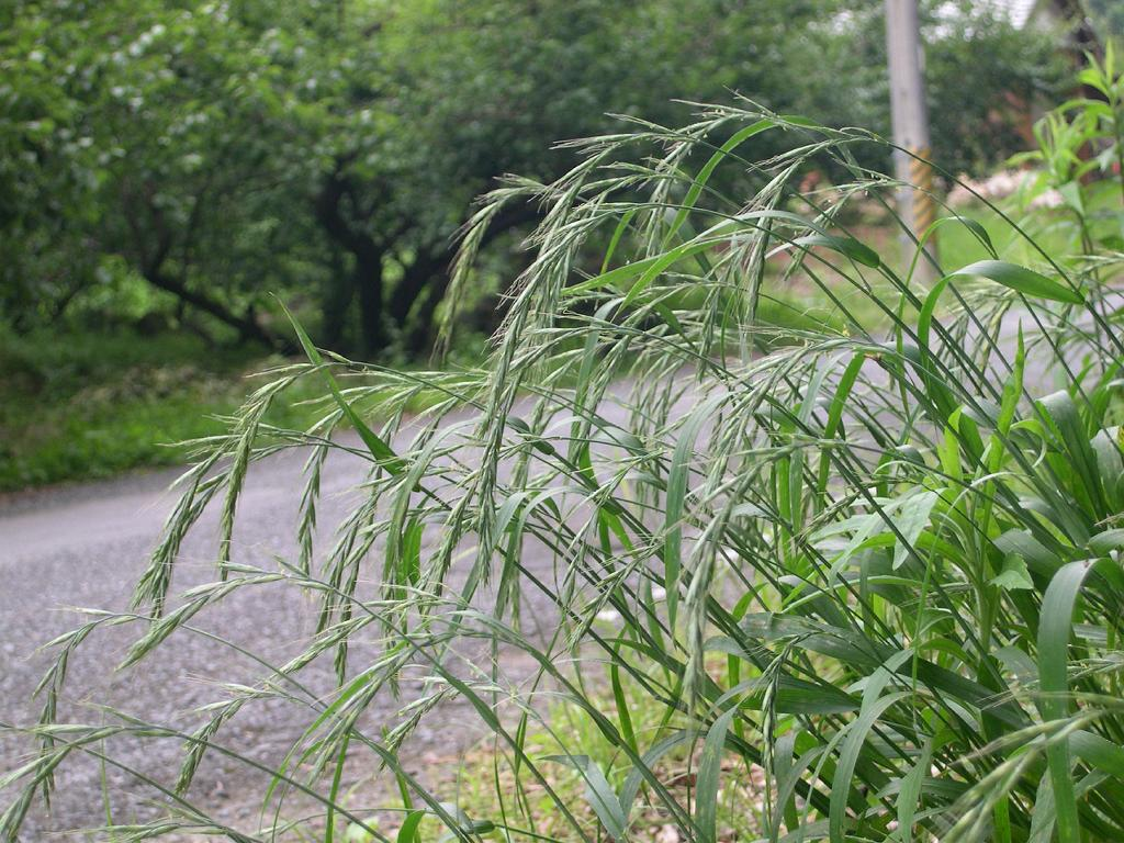 Elymus tsukushiensis Honda var. transiens (Hack.) Osada(Poaceae) Japanese name:Kamojigusa Date;2008,06,28;Tanabe city, Wakayama prefecture, Japan Author;Keisotyo